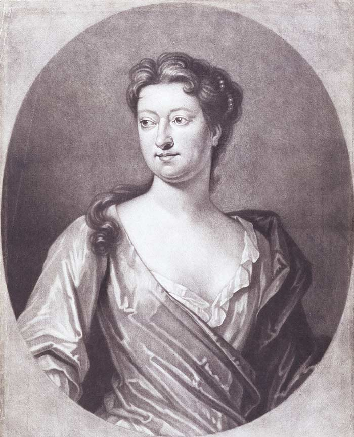 Early 18th Century engraved print of Susanna Centlivre.